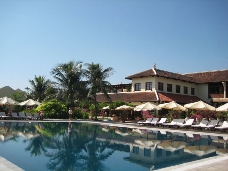 Victoria Hoi An Hotel Ressort and Spa.